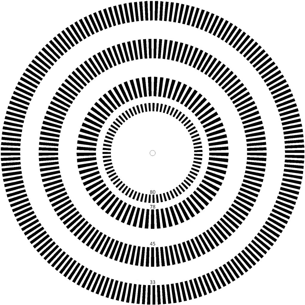 50 Hz strobe at 33 1/3, 45, 78, 80 rpm